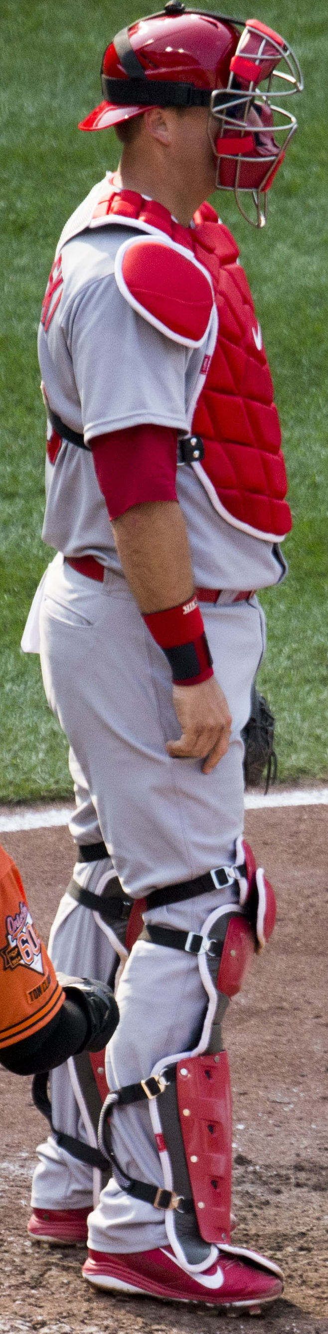 Pierzynski wih Cardinals.